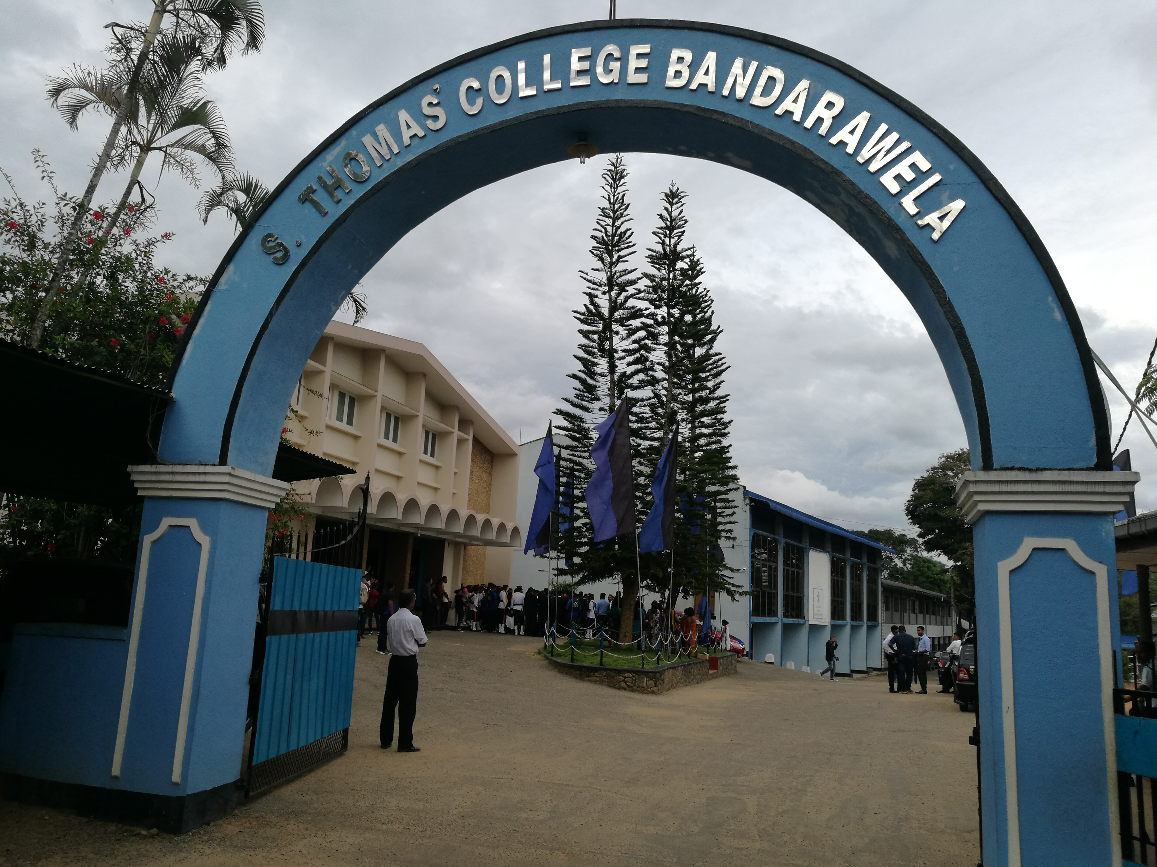 Entrance to College